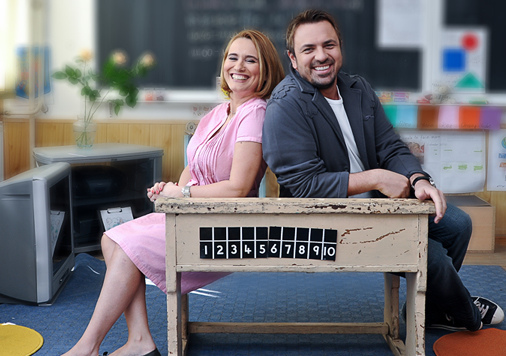 Andreea Esca, a Romanian journalist, and Horia Brenciu, a Romanian TV presenter and singer.